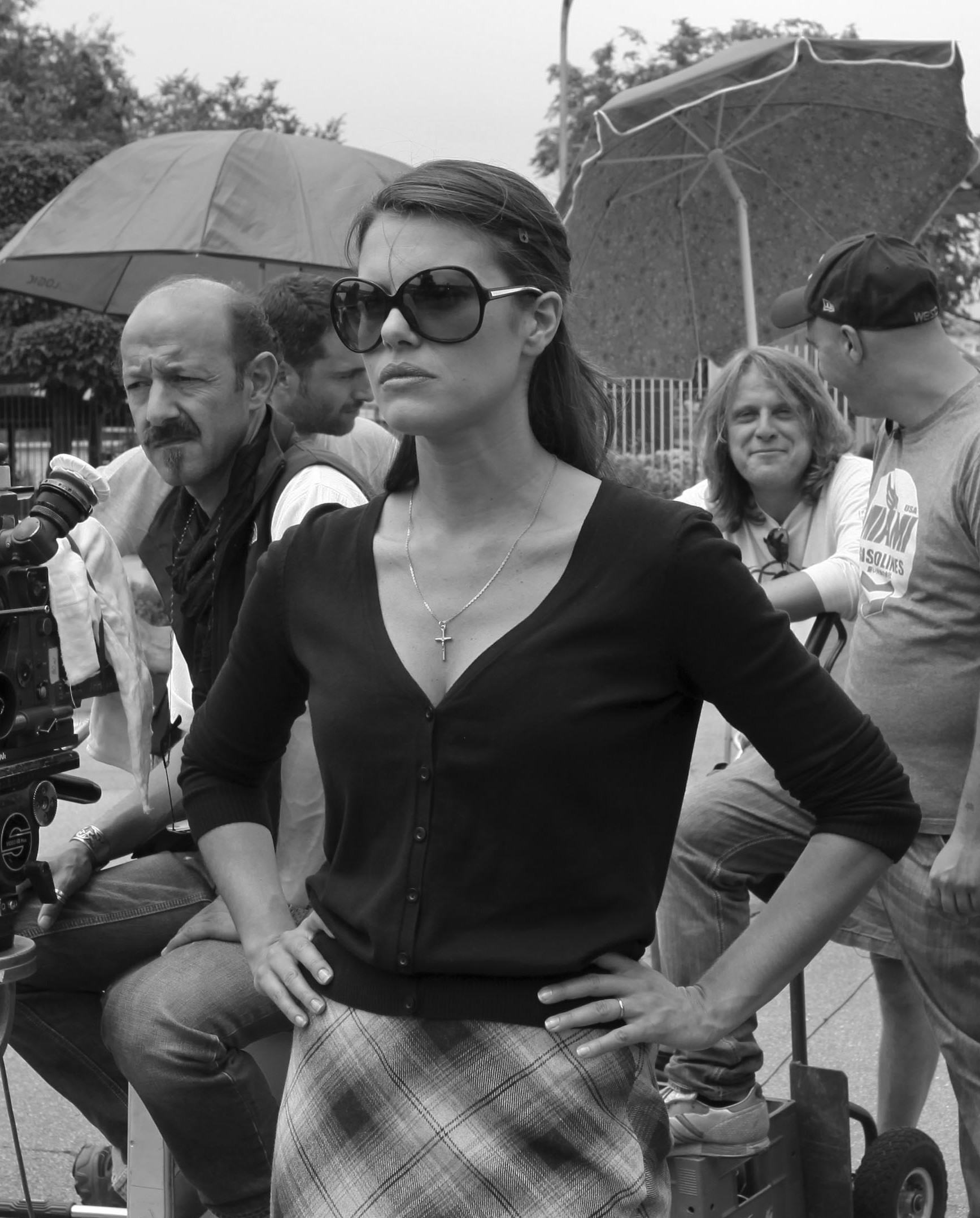 Italian actress Bianca Giaccero on the set of Italian TV miniseries Mia madre (2010).